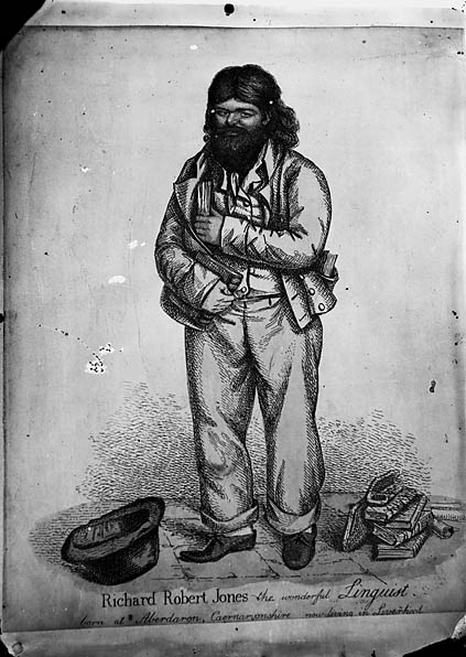 1 negative : glass, wet collodion, b&w ; 16.5 x 12 cm.